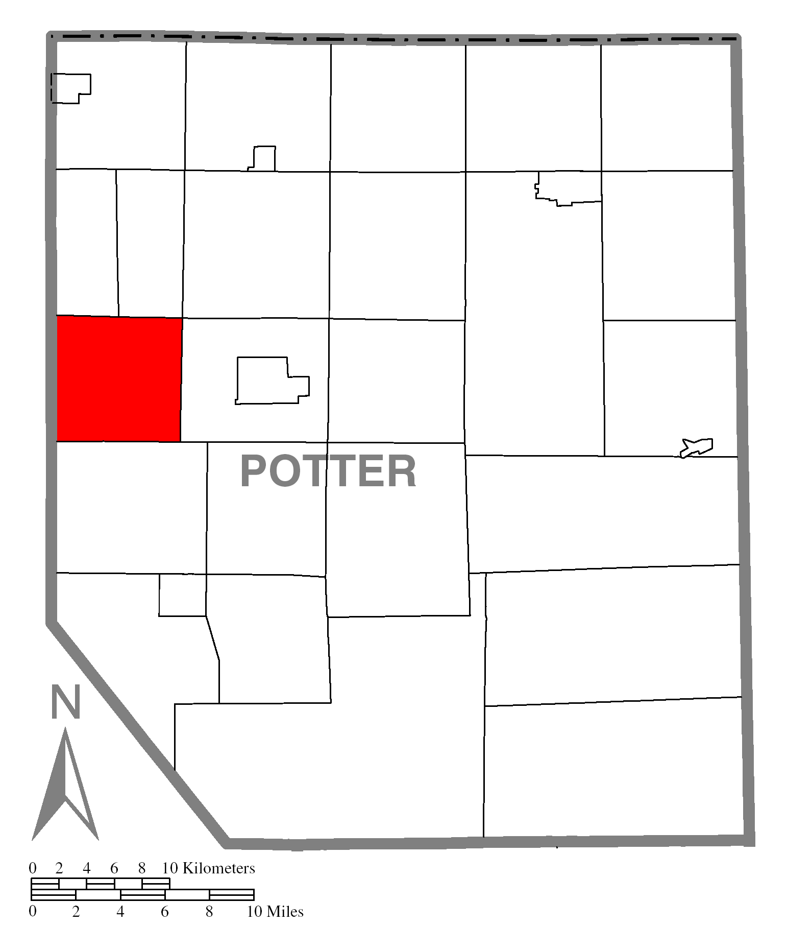 A map of Potter County showing Roulette Township, Pennsylvania (alternate) highlighted on the map.